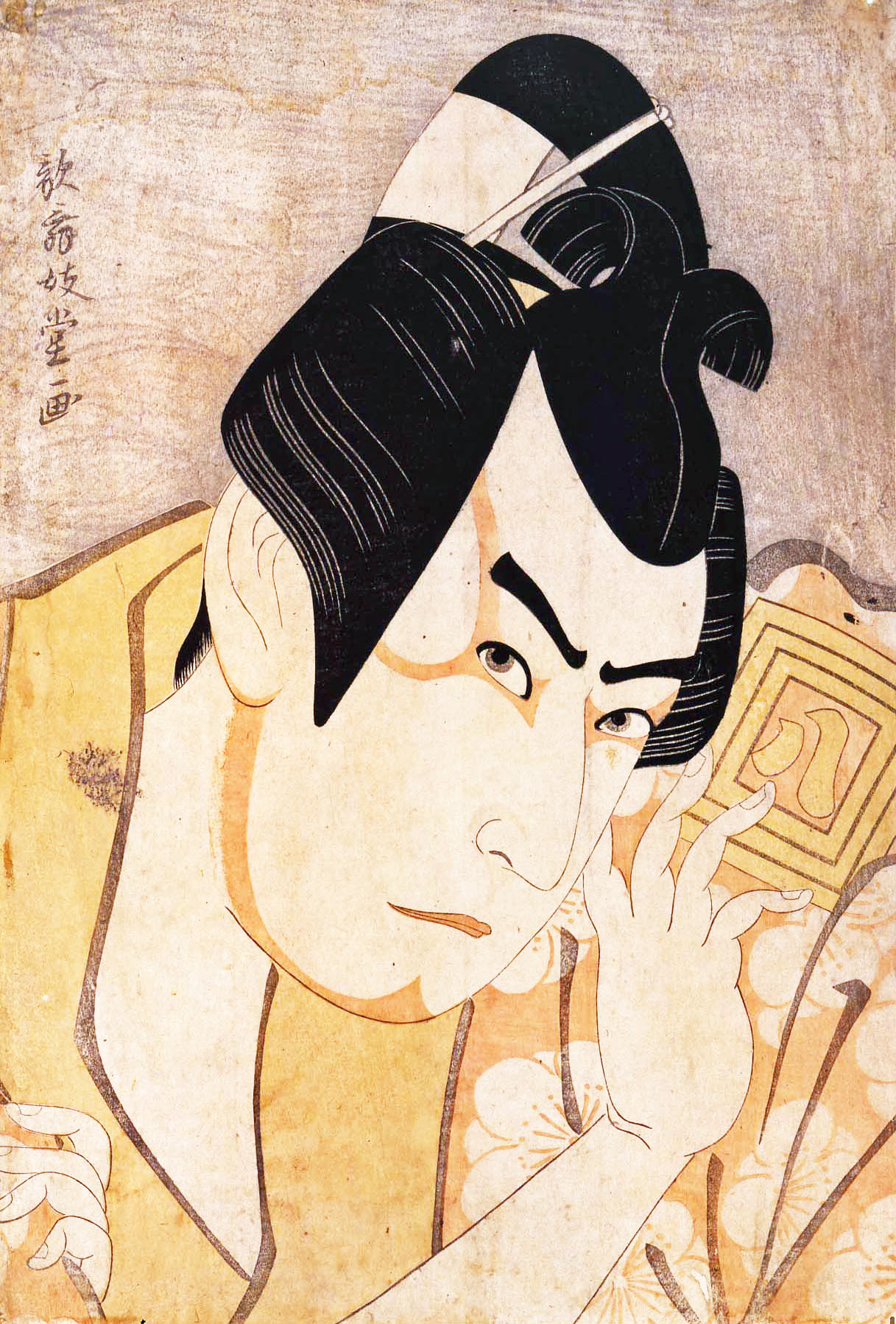 Ukiyo-e print of the actor Ichikawa Yazō III portraying Ume-Ōmaru